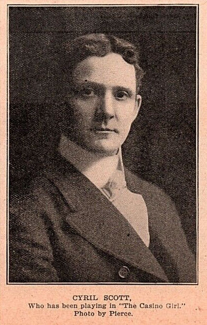 The actor Cyril Scott as Percy in The Casino Girl (1900)